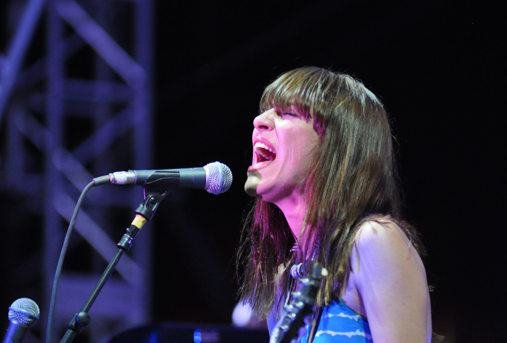 Feist, Coachella 2012, Day two, Saturday, April 21, 2012